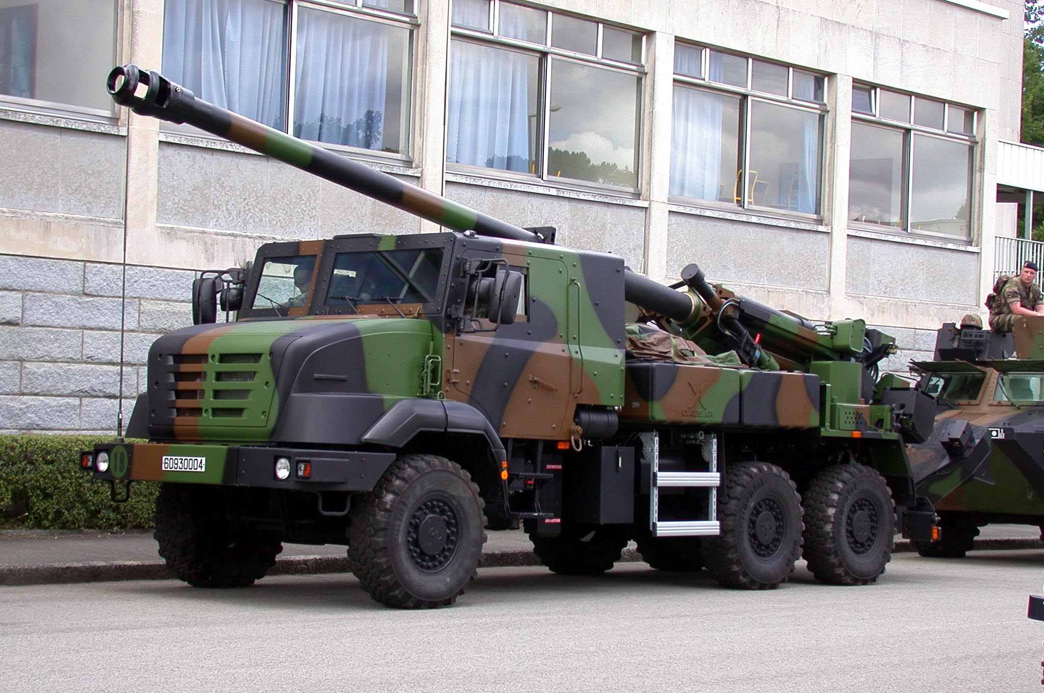 CAESAR (truck equipped with an artillery system)